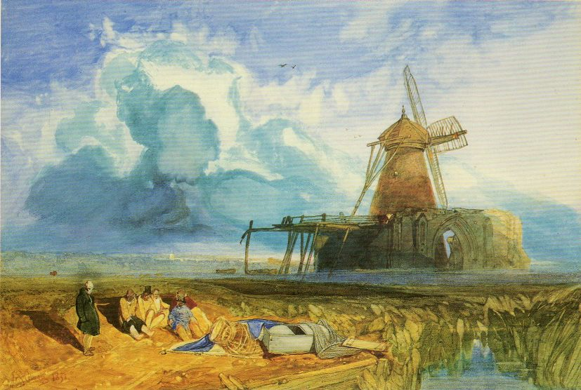 Postcard of the painting "St Benet's Abbey, 1831" by John Sell Cotman (1783-1842). Card published by Norfolk Museums Service. Image cropped to remove border.